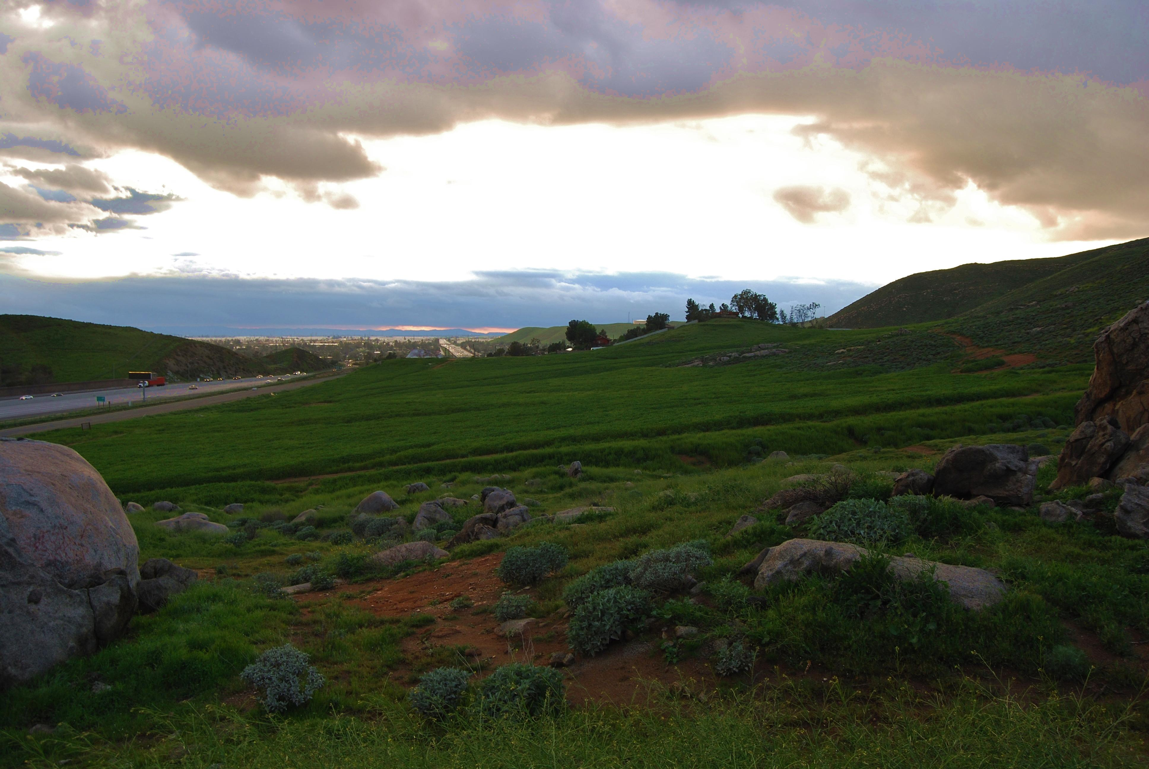 Scenery in the Jurupa Mountains along California State Route 60, looking west.